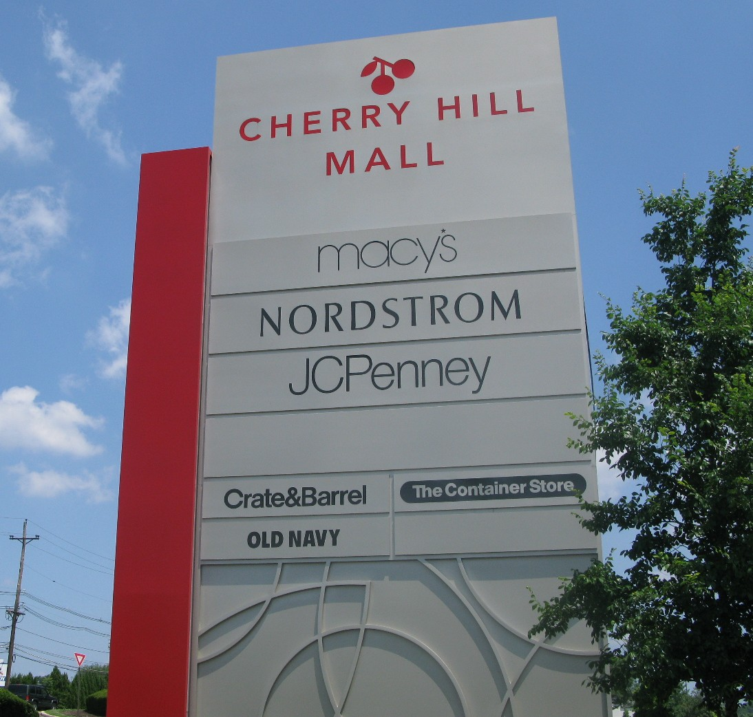 Cherry Hill Mall signage on Haddonfield Road in Cherry Hill, NJ